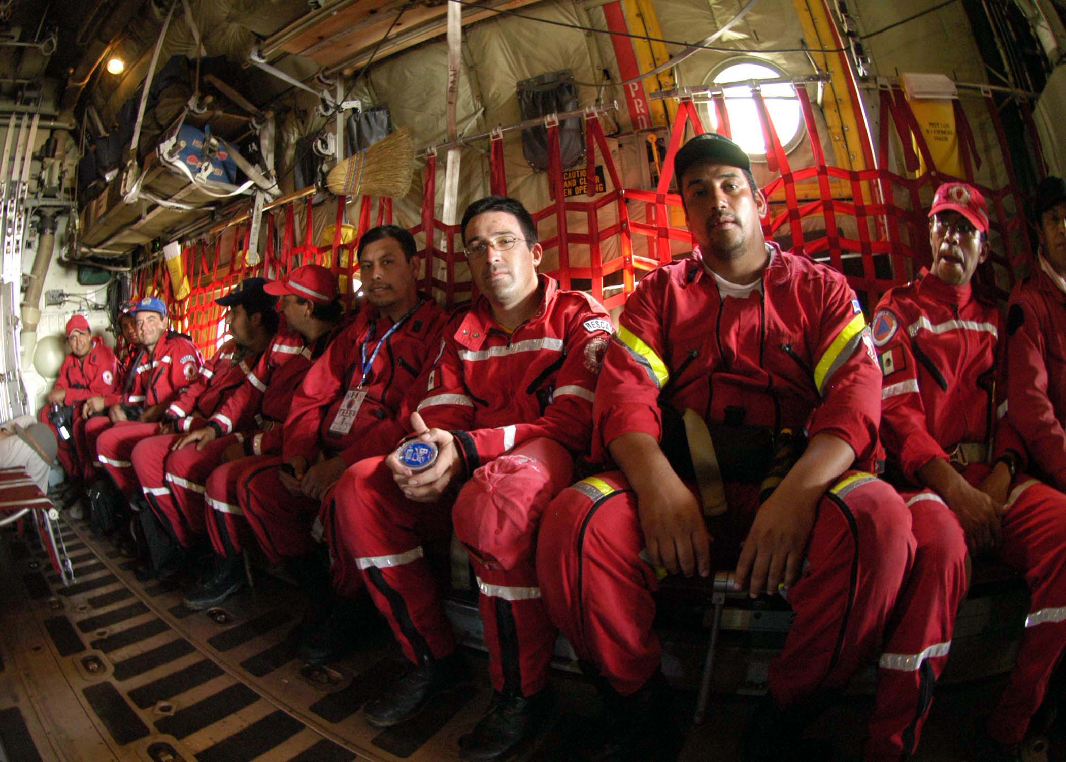 Banda Aceh, Sumatra, Indonesia (Jan. 11, 2005) - A Mexican Search & Rescue team departs on a Royal Australian Air Force C-130H Hercules aircraft at Banda Aceh Airport en route to Thailand to help survivors of the Tsunami disaster. The USS Abraham Lincoln (CVN 72) Carrier Strike Group is currently operating in the Indian Ocean off the waters of Indonesia and Thailand in support of Operation Unified Assistance. U.S. Navy photo by Photographer's Mate 3rd Class Bernardo Fuller (RELEASED)